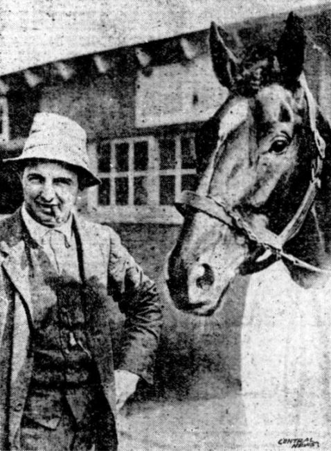 Trainer Louis Feustel and American Thoroughbred racehorse Man o' War, on page 14 of the August 20, 1920 The Duluth Herald.